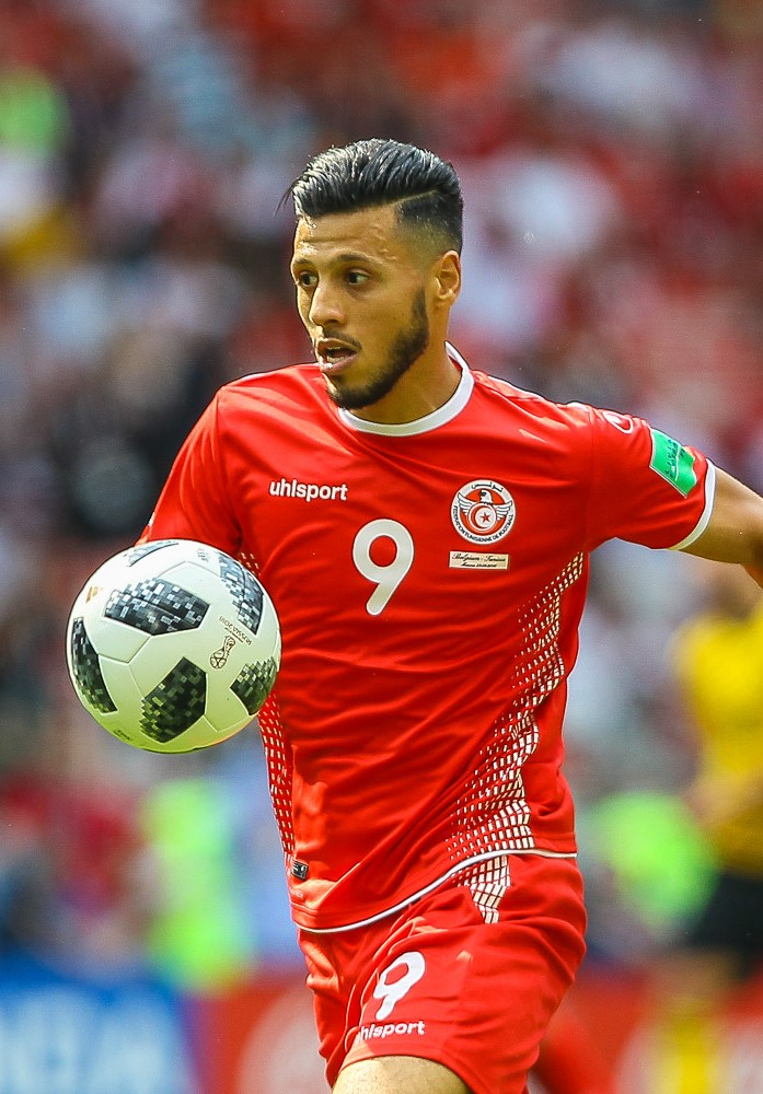 Anice Badri